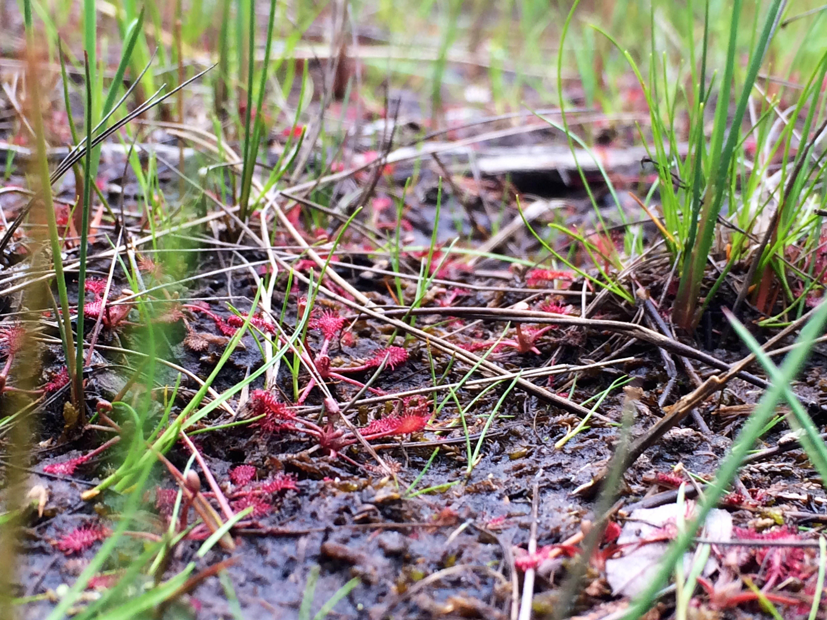 Sundew in Pine Barrens, New Jersey